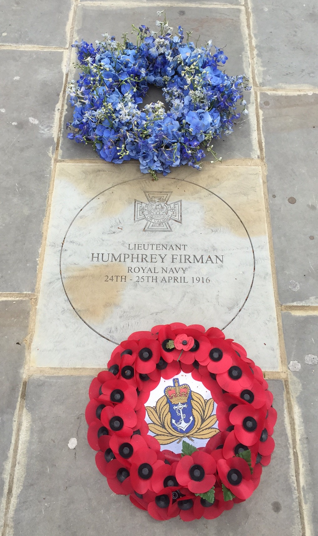 Memorial slab to Lt Humphrey Firman VC RN in the pavement on the south side of South Kensington tube station, with wreaths placed on 25 April 2016